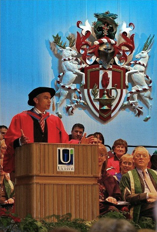 Colette Kavanagh, Taken At The Graduation Ceremony, Own Image NO copyright Implication